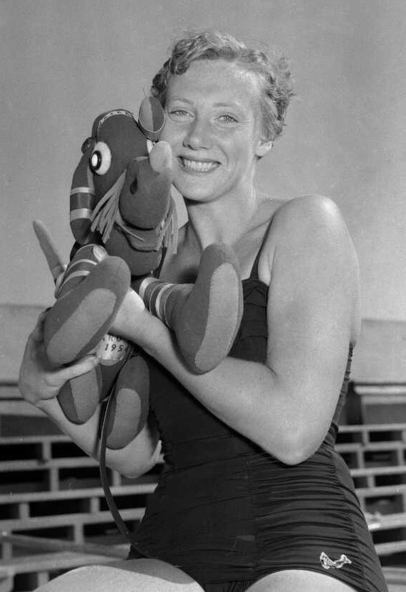 Marrion Roe